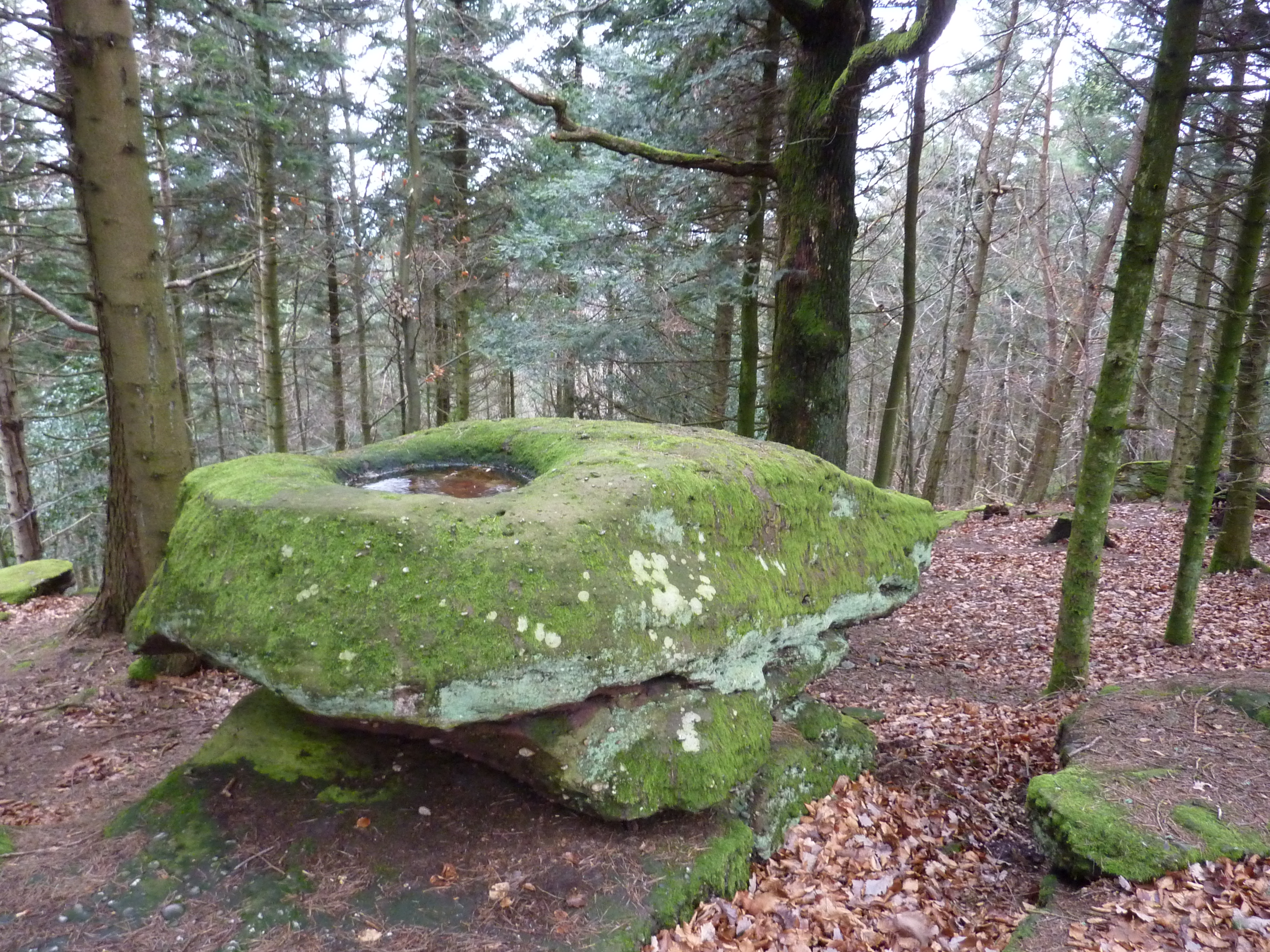 Pierre des druides (stone of druids) on Wuestenberg mount near Reinhardsmunster village, Bas-Rhin, France